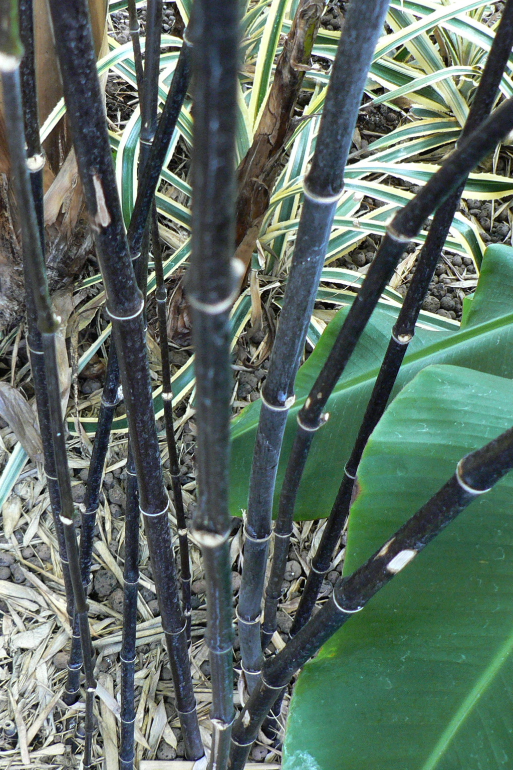 Black bamboo stems - all part of one plant. Taken in Leamington Spa, UK by Rob Cowie